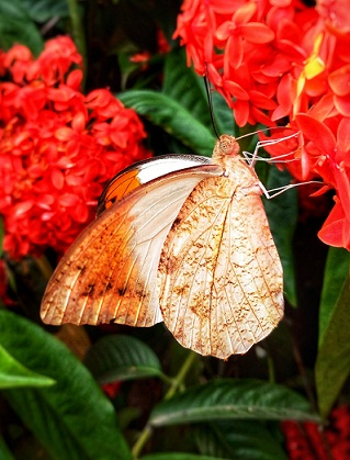 Hebomoia glaucippe glaucippe (Great orange tip butterly), located at village- Jamjuri, Udaipur, state- Tripura, country- India, A wet season female form, feeding nectar on Lxora red flower.